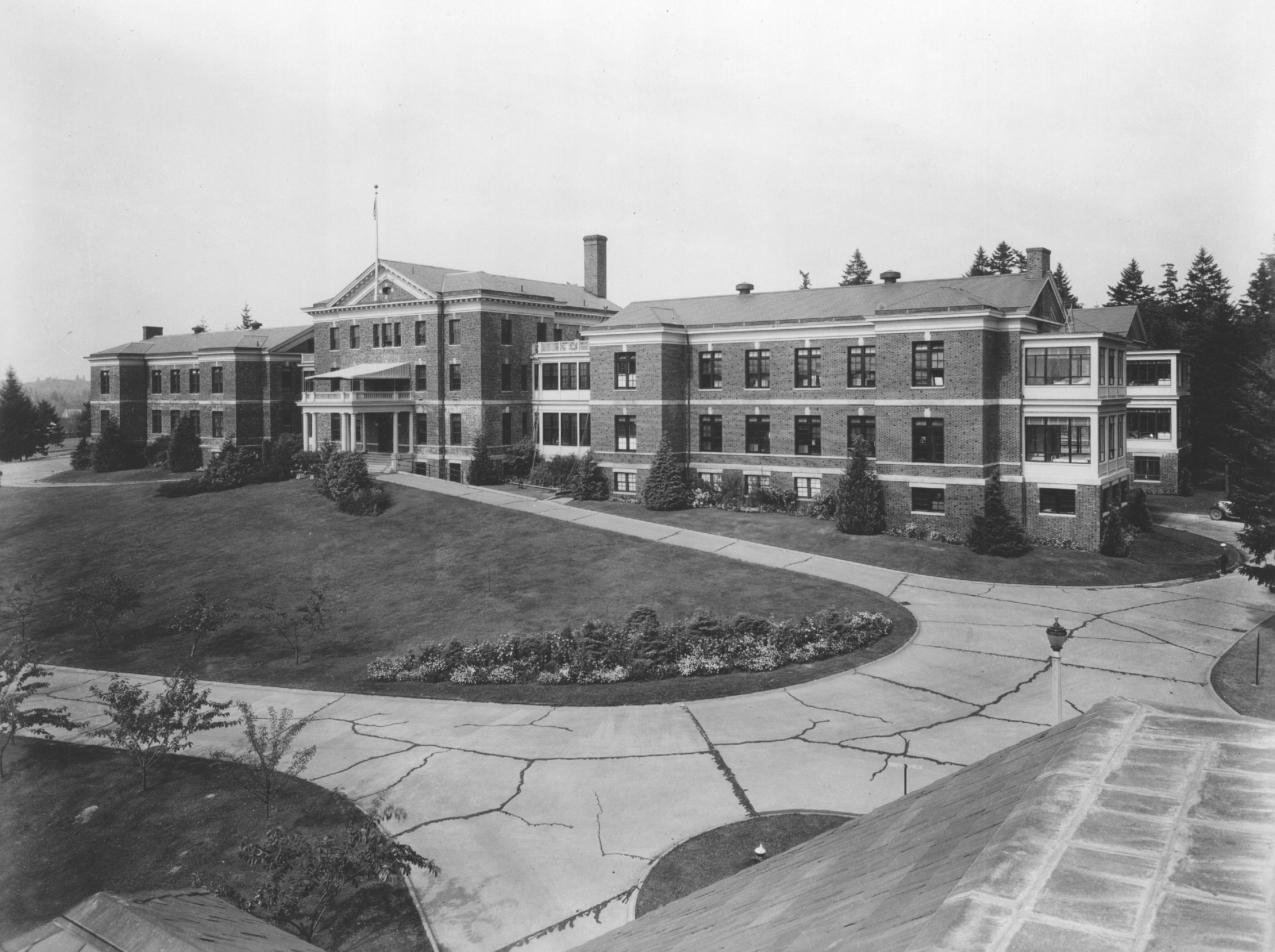 View of the U.S. Naval Hospital at Puget Sound Navy Yard, Bremerton, Washington (USA), in 1938.